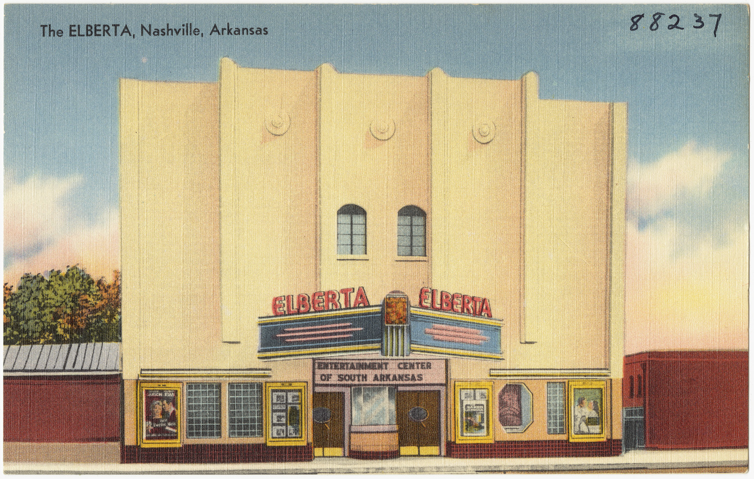 File name: 06_10_019600 Title: The Elberta, Nashville, Arkansas Created/Published: "Tichnor Quality Views," Reg. U. S. Pat. Off. Made Only by Tichnor Bros., Inc., Boston, Mass. Date issued: 1930 - 1945 (approximate) Physical description: 1 print (postcard) : linen texture, color ; 3 1/2 x 5 1/2 in. Genre: Postcards Subjects: Theaters Notes: Title from item. Collection: The Tichnor Brothers Collection Location: Boston Public Library, Print Department Rights: No known restrictions